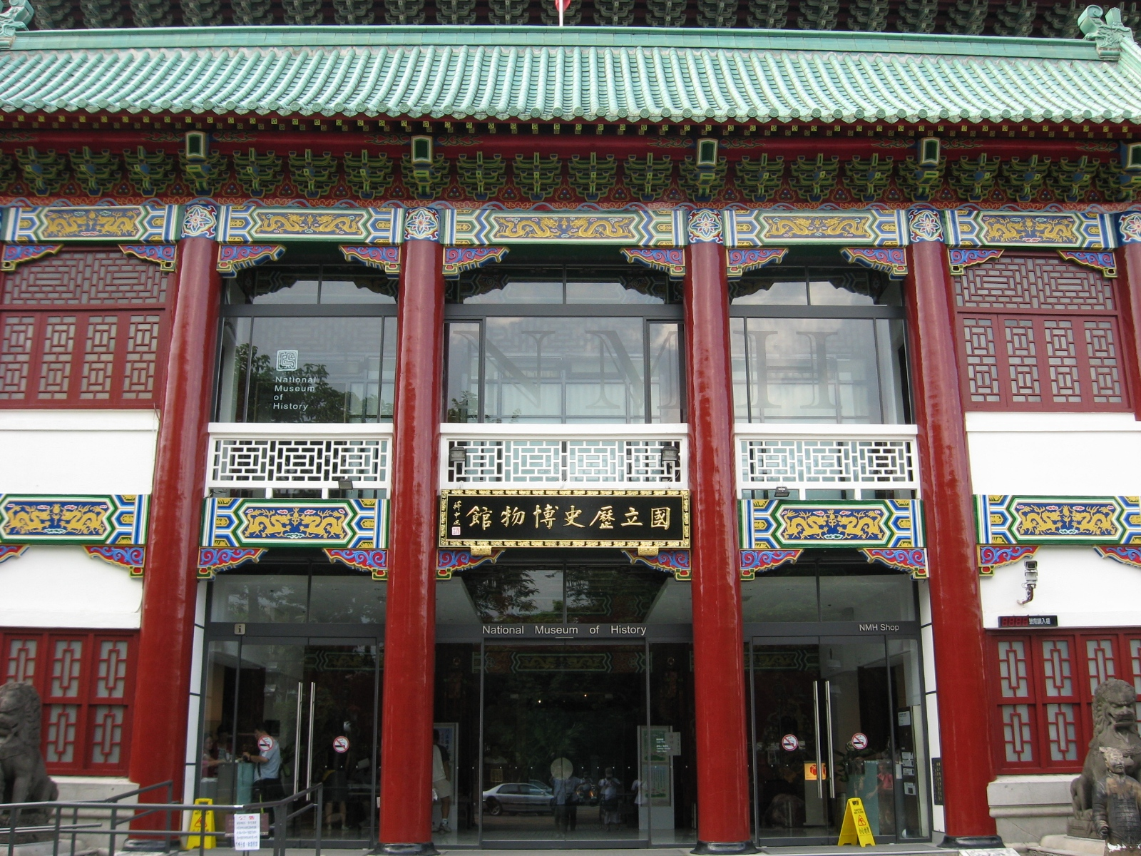 National Museum of History (Repulic of China)